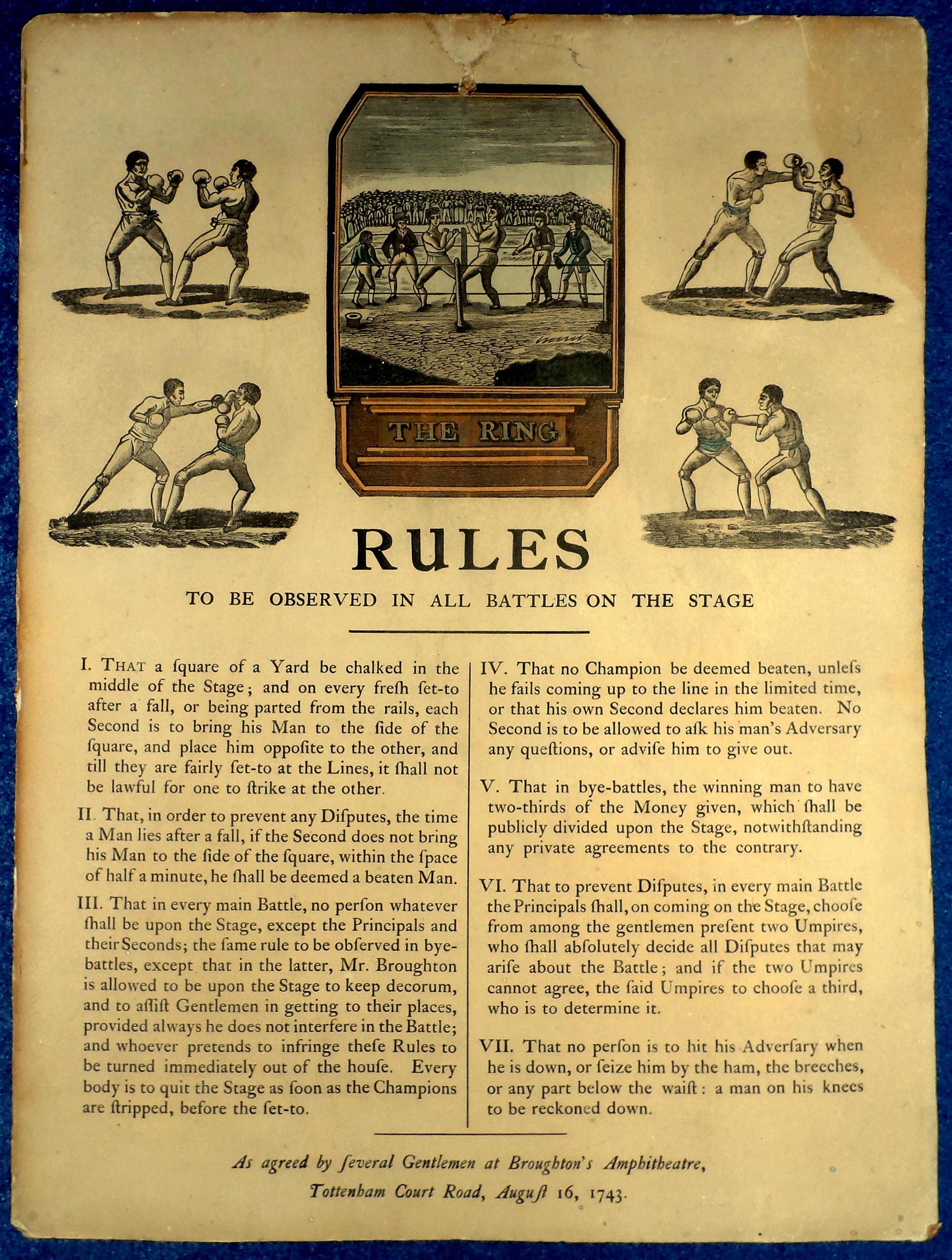 Broughton's Rules of the Ring broadside